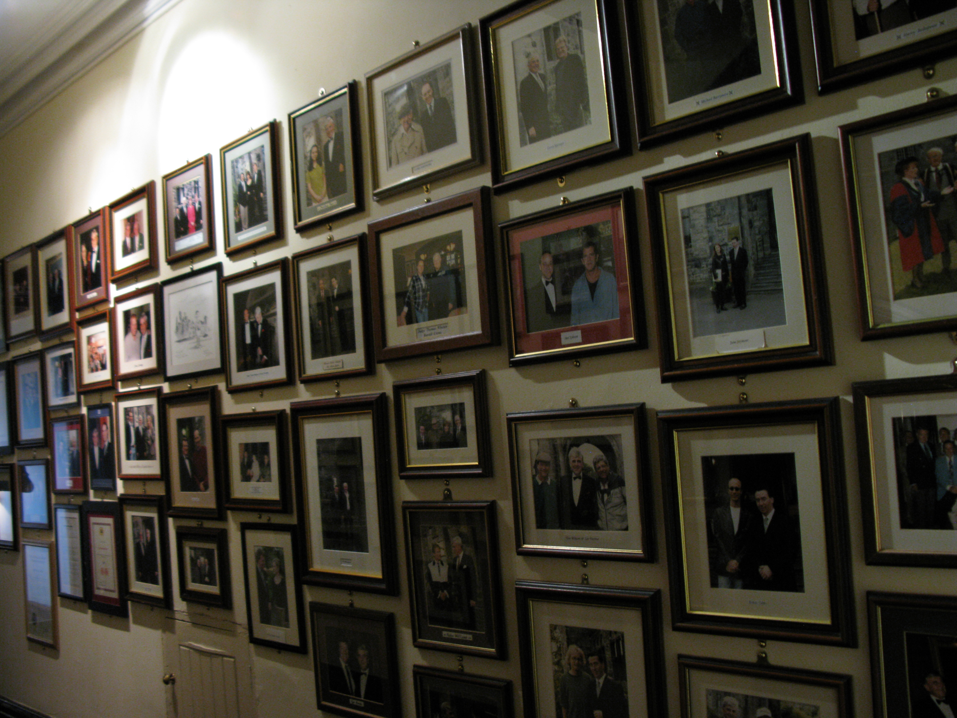 Photos of famous visitors line the walls of the Memorabilia hall on the second floor of Ashford Castle, Cong, County Mayo, Ireland